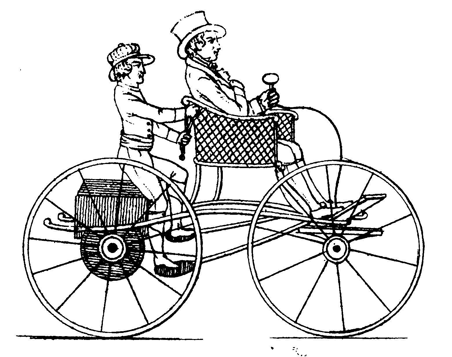 human-powered carriage for castle gardens